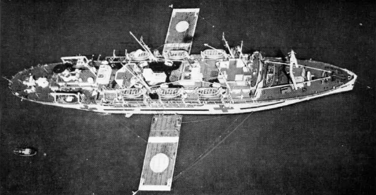 The U.S. Navy hospital ship USS Haven (AH-12) anchored off Korea in 1952. She operated off Inchon and Pusan from January to September 1952, receiving many of her patients by helicopters directly from the front lines via the two floating helicopter landing pads, visible moored on each side midway down her hull.